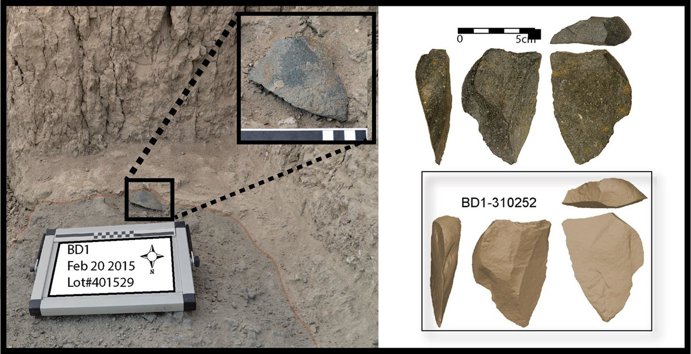 Oldowan tool from Bokol Dora 1, Afar Region, Ethiopia, published in